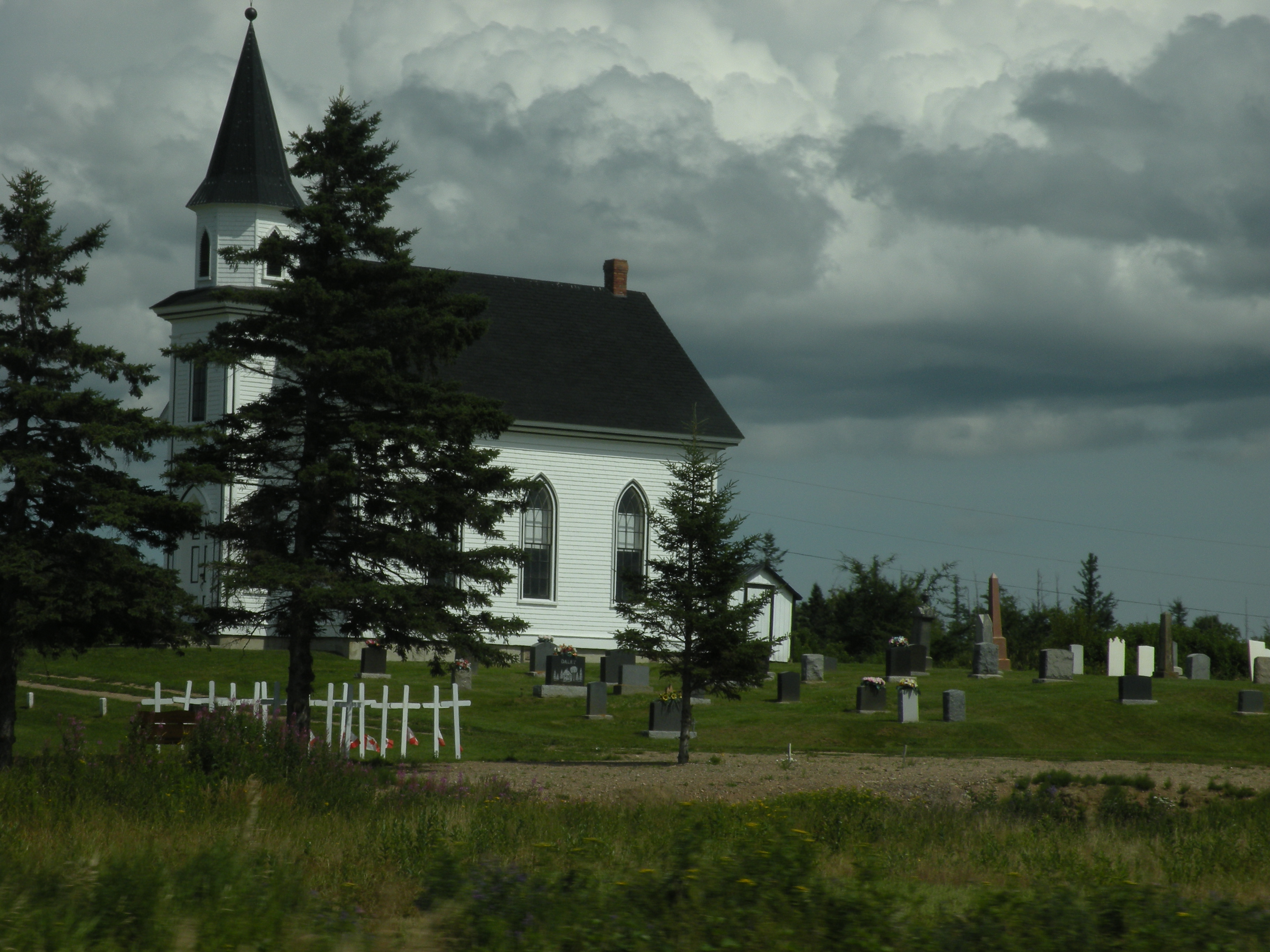 A church in Stonehaven, New Brunswick, Canada.